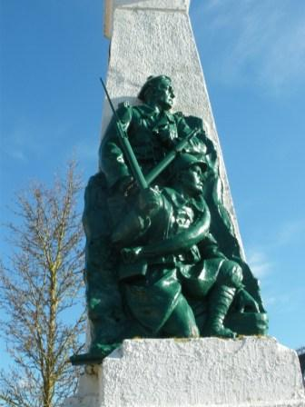 The Marbreries Generales Gourdon bronze "Poilu et Marin Combattant" set into the monument aux morts at Le Crotoy in the Somme region of France. The piece dates from 1921.